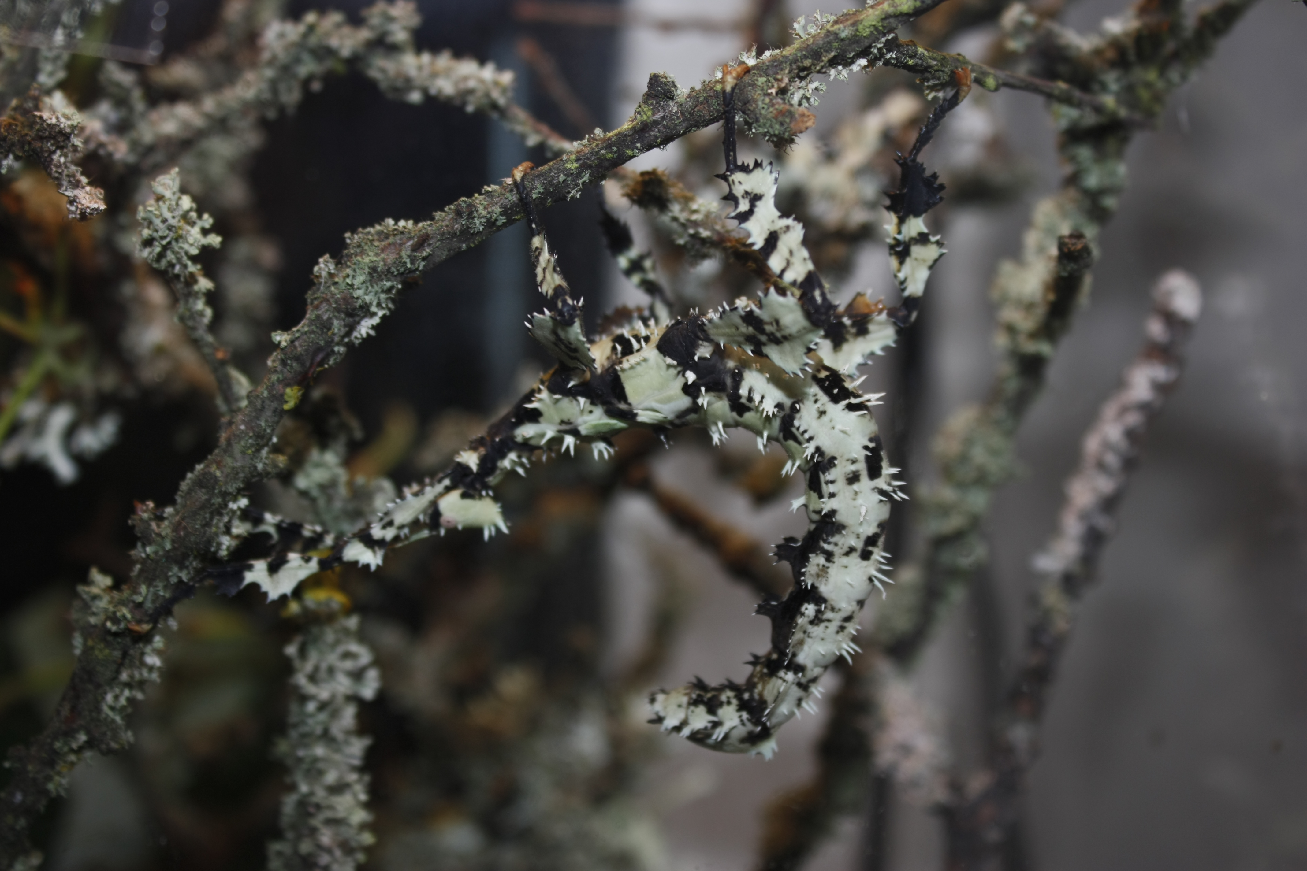 Extatosoma tiaratum femal lichenform